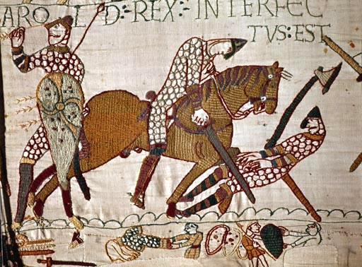 Deense bijl op het tapijt van Bayeux